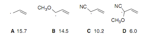 fdsafsa